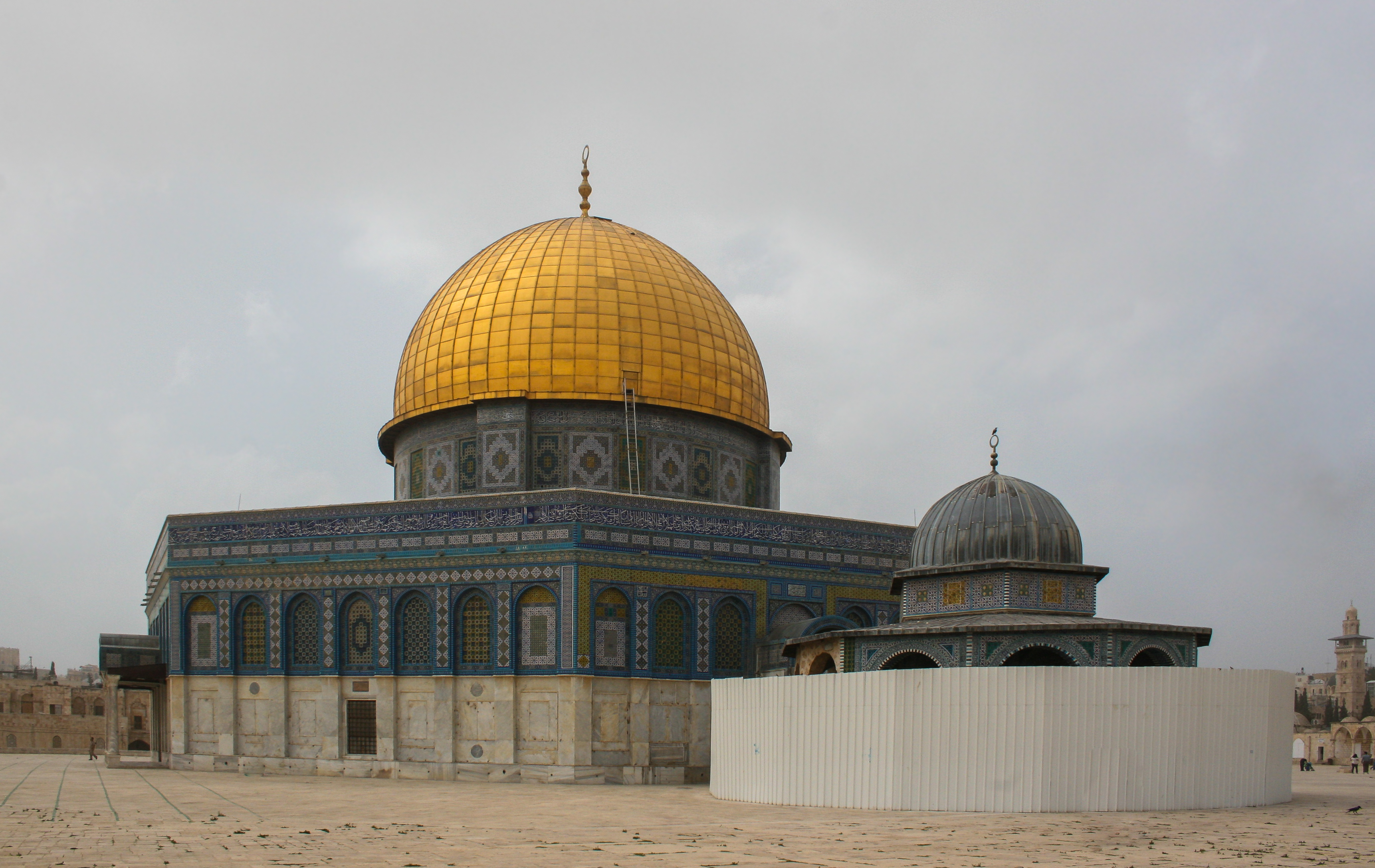 Dome of the Rock, Jerusalem